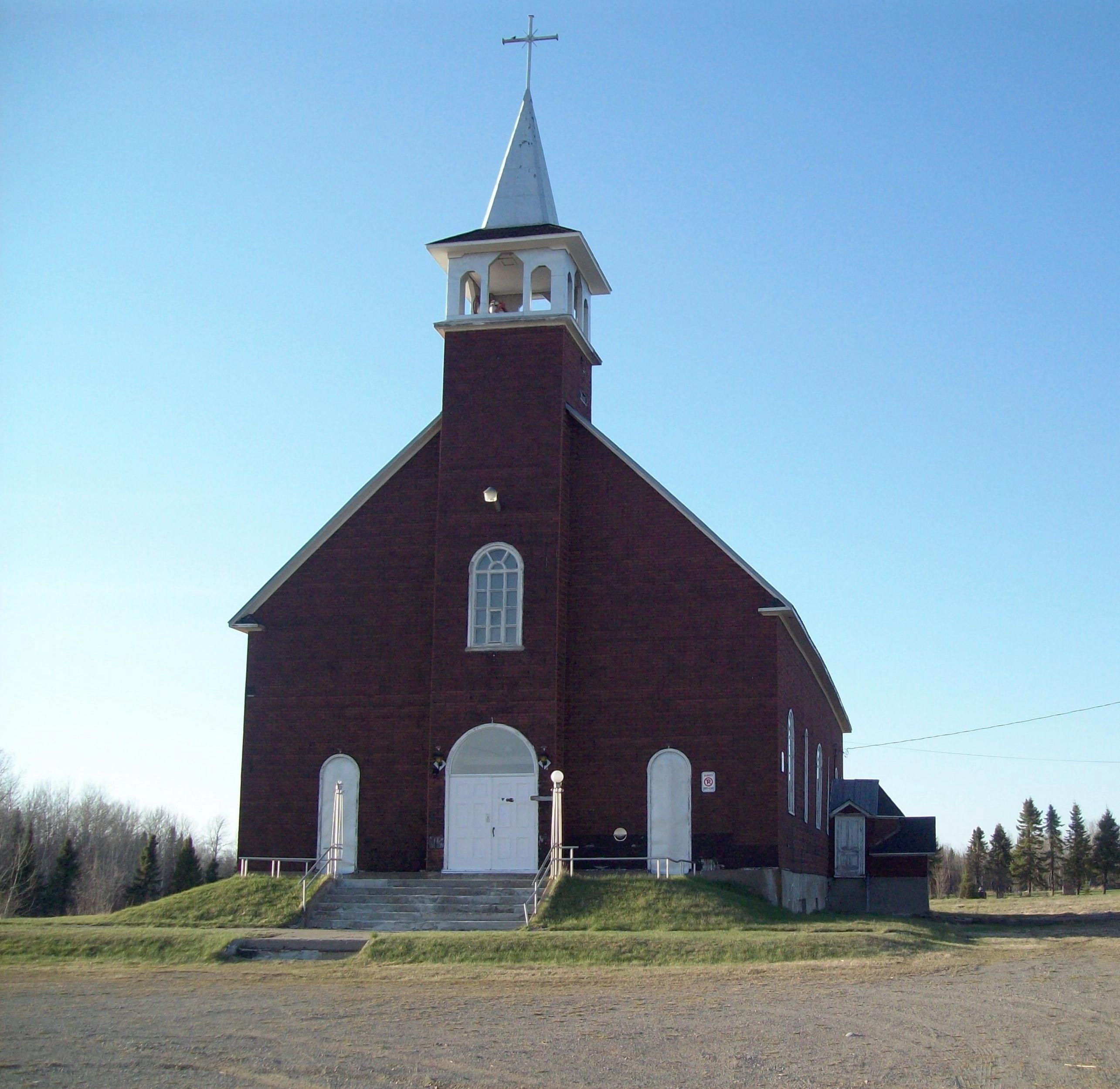 Facade de l'église de St-Gérard-de-Berry.